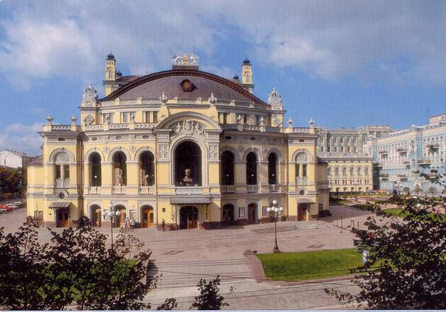 The Taras Shevchenko Ukrainian National Opera House in Kiev.